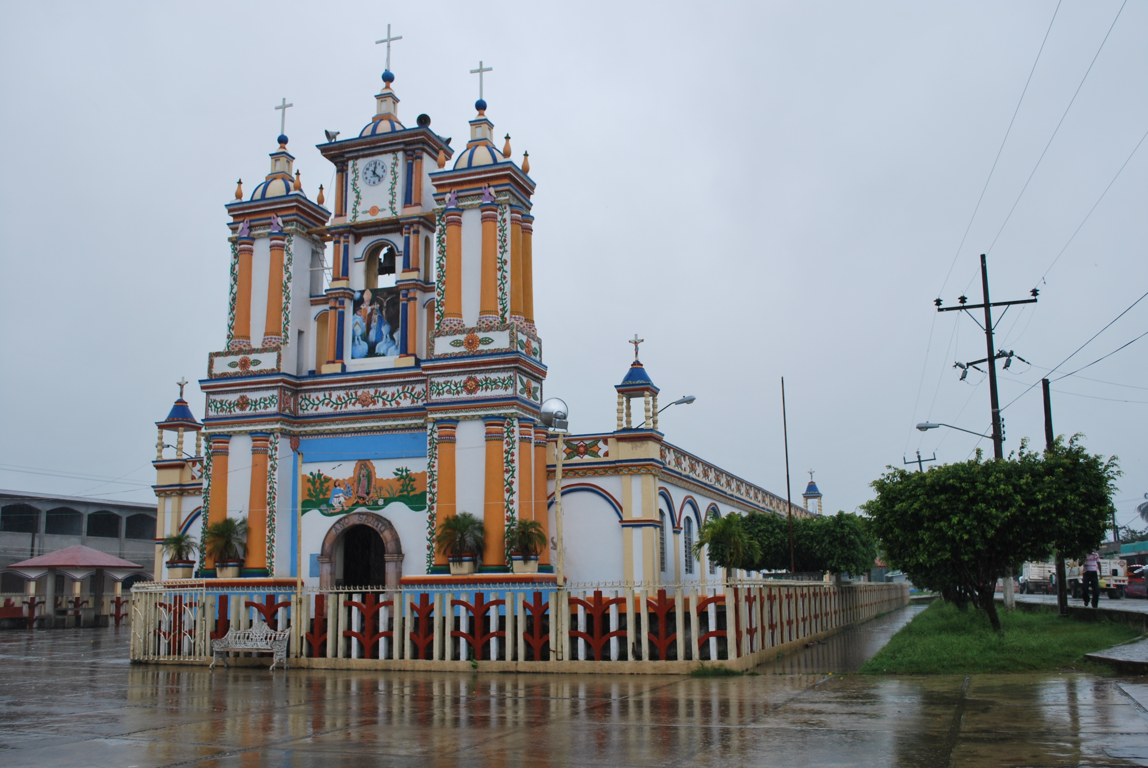 Virgen de la Asunción Church in Cupilco, Tabasco